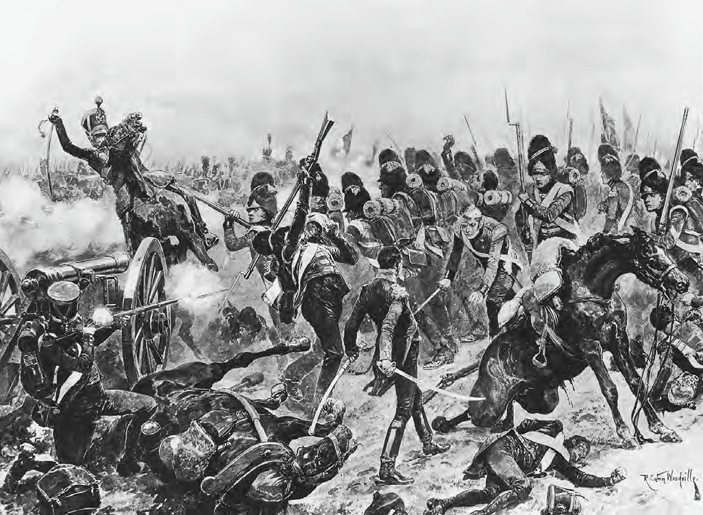 At the Battle of Salamanca, Sir Edward Packenham's 3rd Division charges Thomieres.